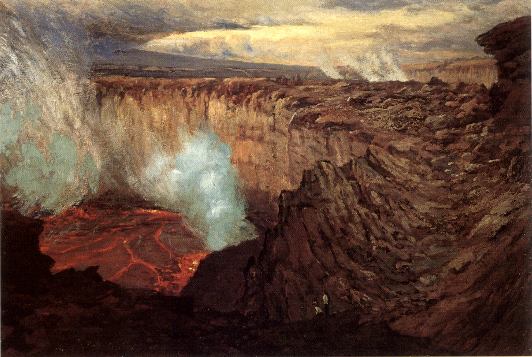 'Kilauea Caldera', oil on canvas painting by Ernst William Christmas, 1916-1918